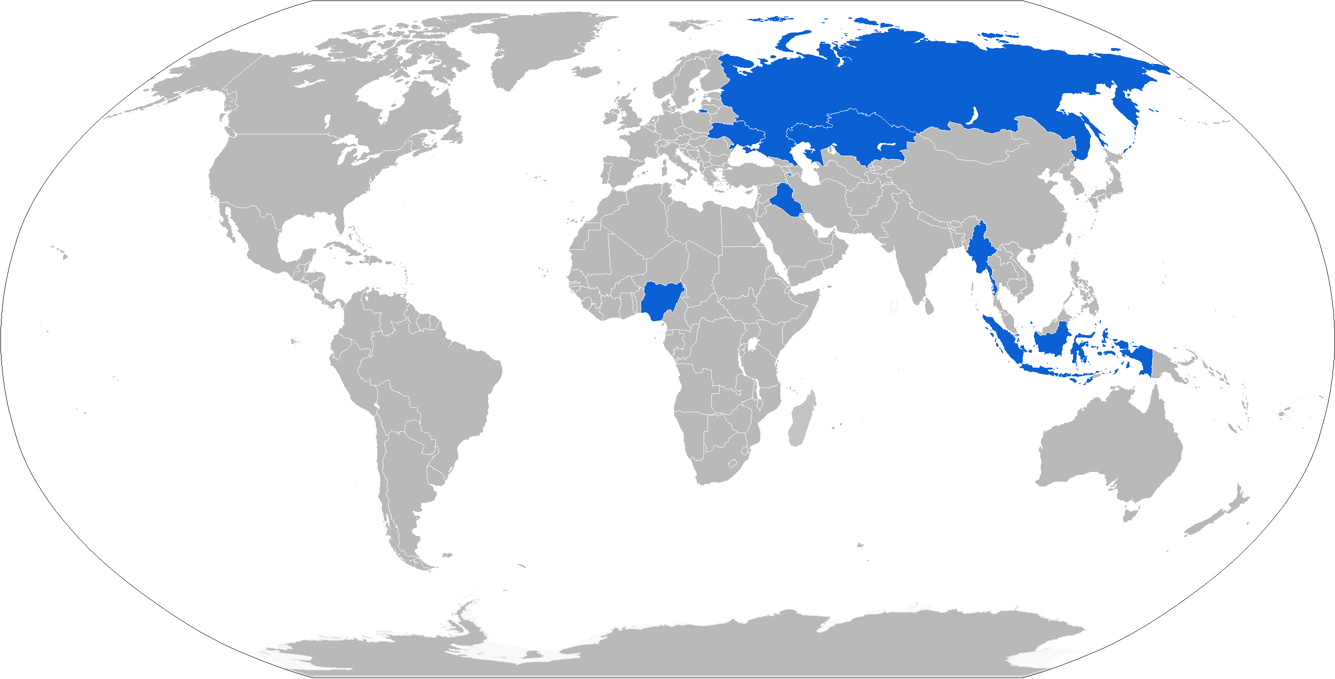 World operators of Ukrainian BTR-4